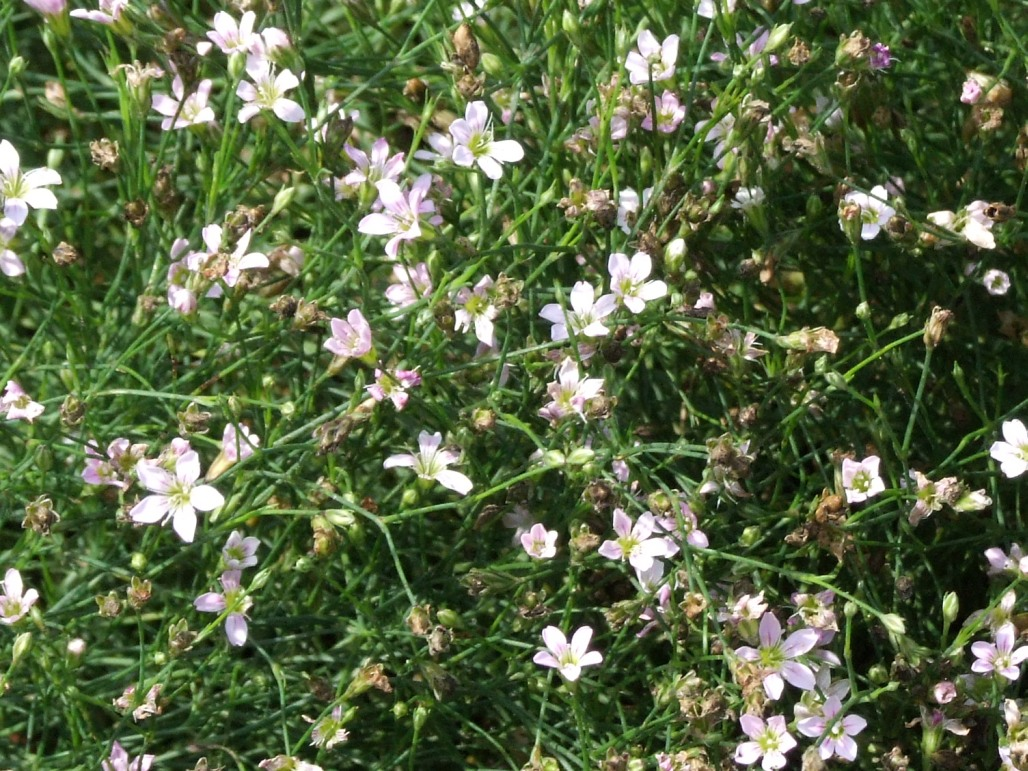 Petrorhagia saxifraga or by its synonym Tunica saxifraga